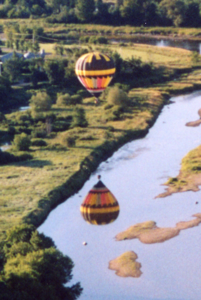 Hot air balloon over a small river in Quebec. Photo taken August 2005.